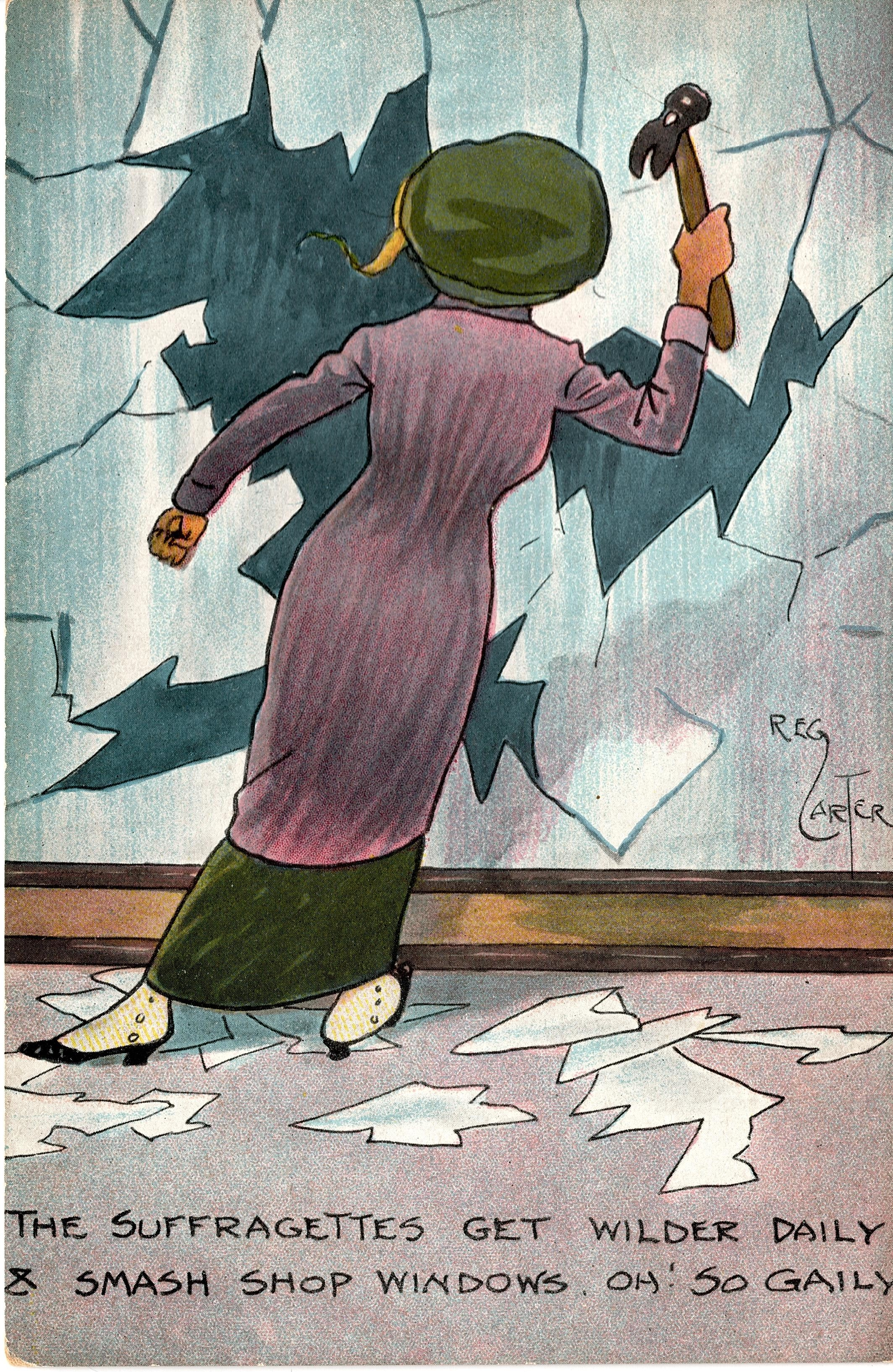 "The suffragettes get wilder..." by Reg Carter Anti-suffrage comic card depicts a suffragette wearing a green hat, purple coat and white spats, wielding a hammer and smashing a department store window, printed inscription front: 'The suffragettes get wilder daily & smash shop windows oh! So gaily', 'Reg Carter'. TWL.2004.1011.37